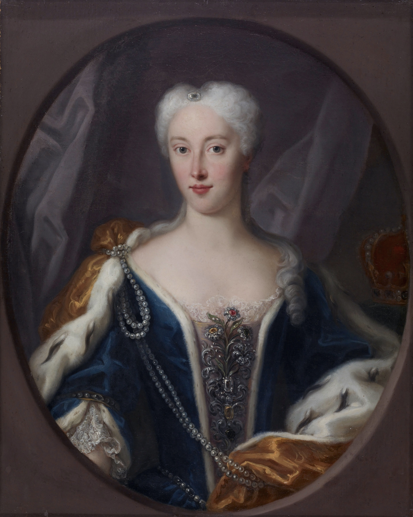 Portrait of Maria Clementina Sobieska (1702-1735)